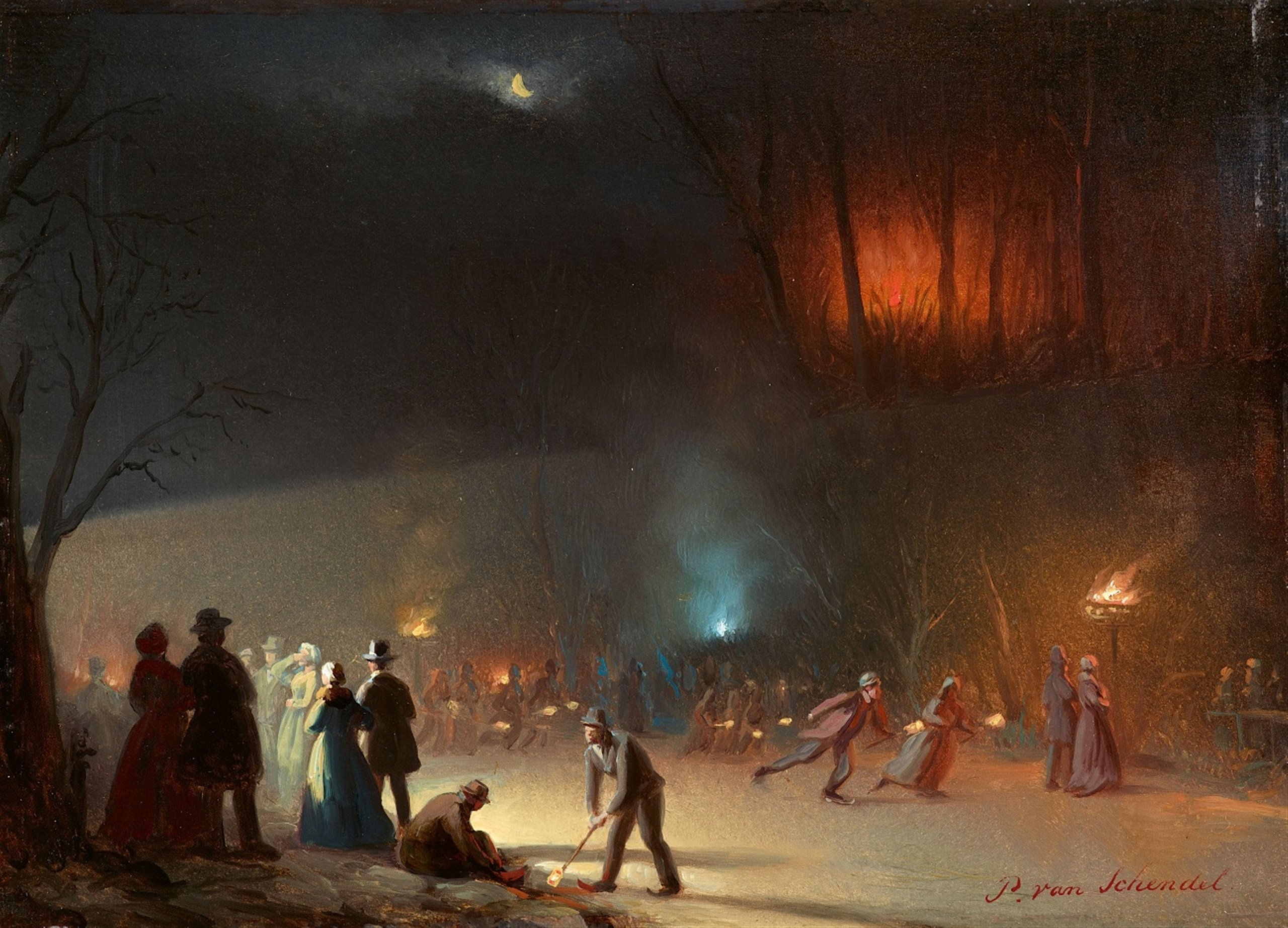 Winter Festival at the Jardin Zoologique in Brussels Oil on panel, 26 x 36 cm Signed lower right: P. van Schendel Preparatory sketch for a painting no longer extant, showing Bengal fires and electric light coming from the left